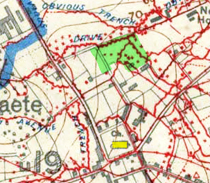 1:20000 scale attack planning map from the Battle of Messines. The objectives are II ANZAC, IX and X Corps are marked. The II ANZAC sector has greater detail. Ausgrabungsfläche von 2018 grün eingezeichnet, Kirche gelb